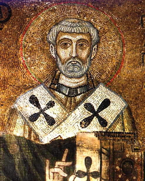 Clemens I, the Pope of Rome. Mosaic from St. Sophia of Kyiv, 11th c. In places of loss (lower part of the composition) — oil painting of the 18th c.